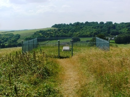 Beacon Hill, Burghclere, Hampshire: Tomb of George Herbert, 5th Earl of Carnarvon (1866–1923)